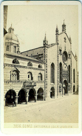 Giacomo Brogi (1822-1881) - "Como - Cathedral, with the loggia". Catalogue # 3856. 1870s. Today.